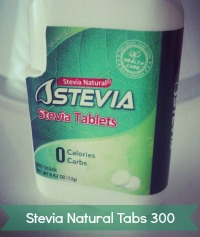 Stevia Tablets as sugar substitute